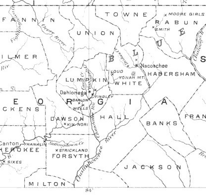 GeorgiaGoldBelt